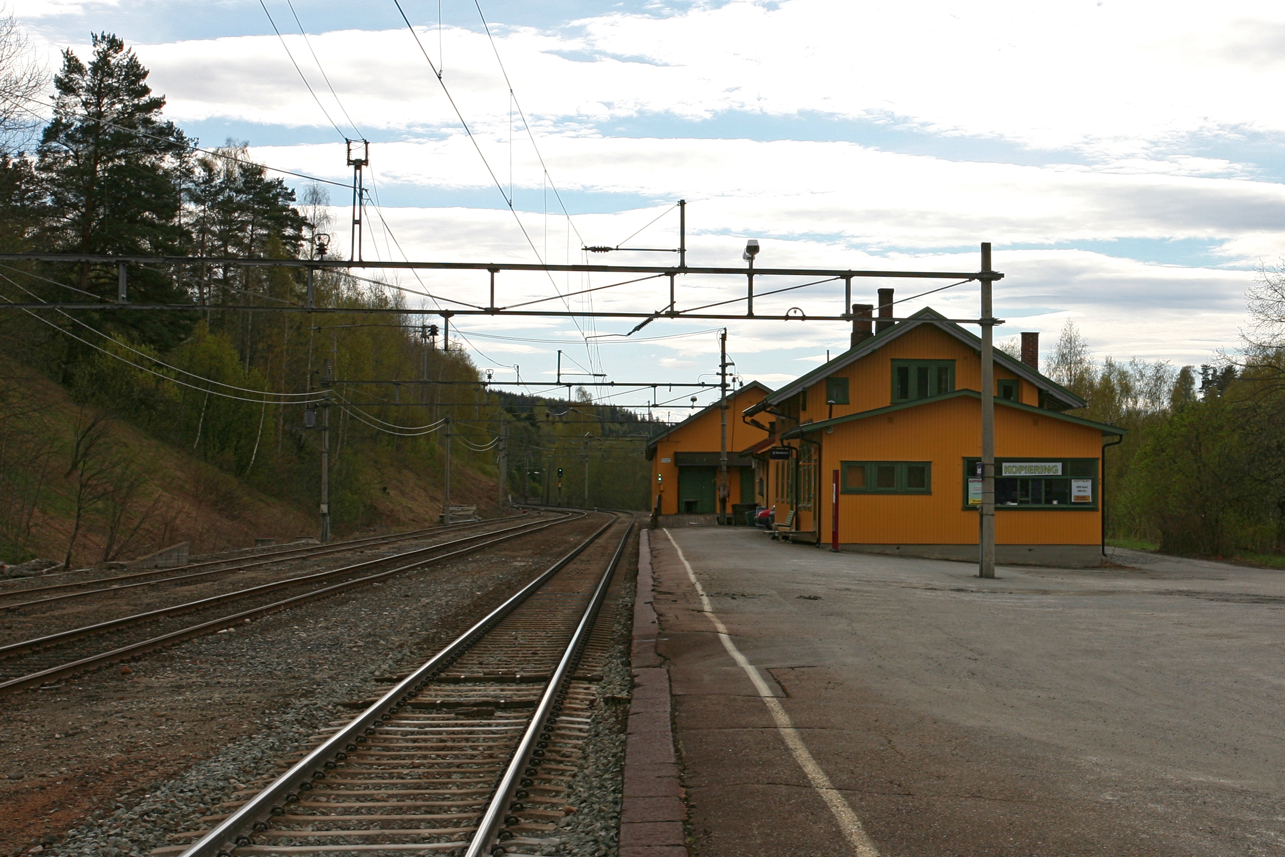 Picture of Åmot Railway Station (Norway)